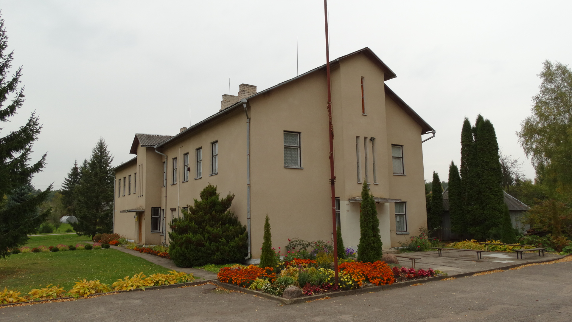 Centre of culture, Krikštonys, Lazdijai district, Lithuania